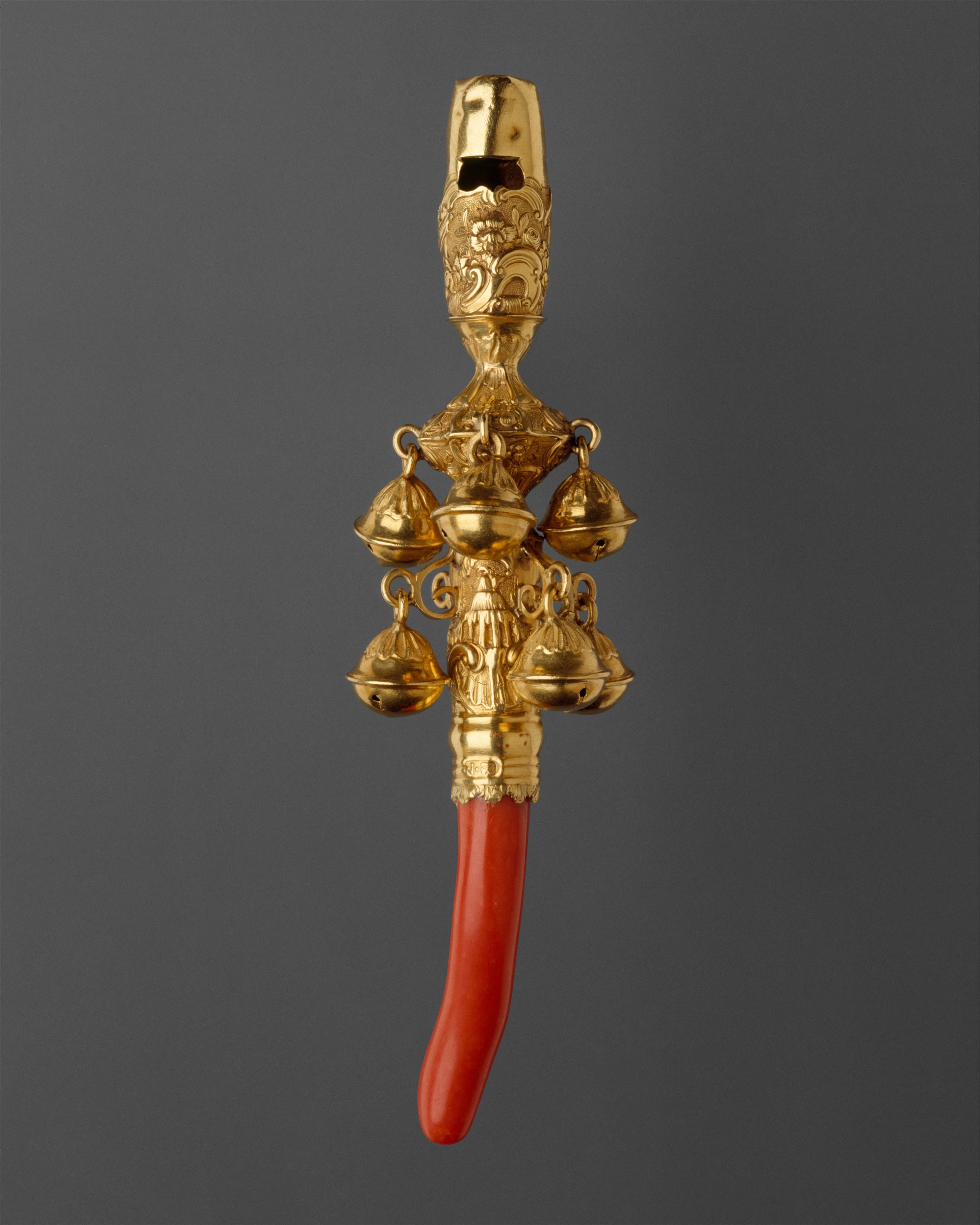 American; Rattle, whistle, and bells; Metal